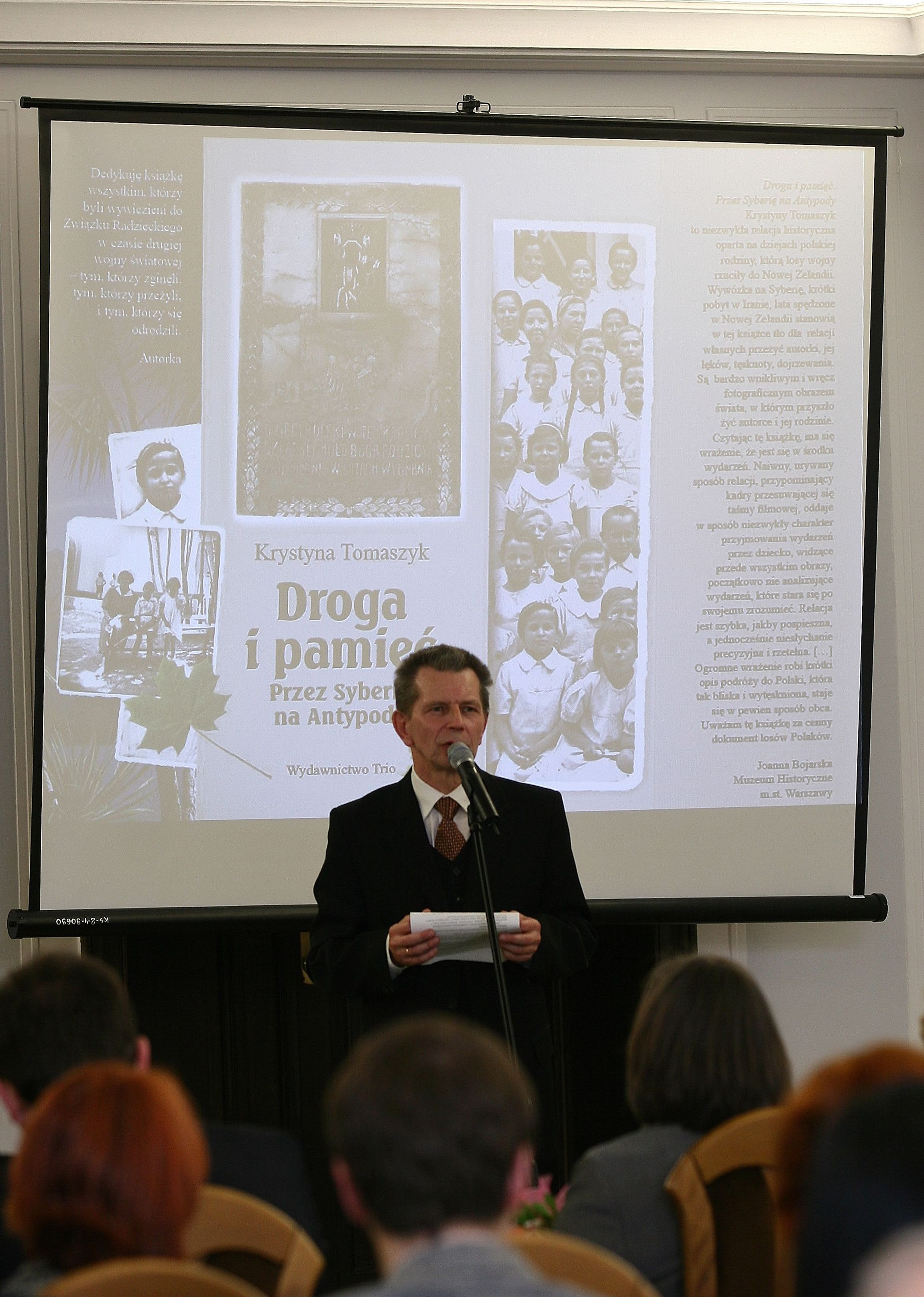 Andrzej Kunert in the Polish Senate. 65th anniversary of Polish children's arrival to New Zealand